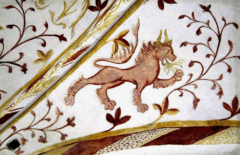 Bregninge Kirke (church) in Kalundborg Kommune